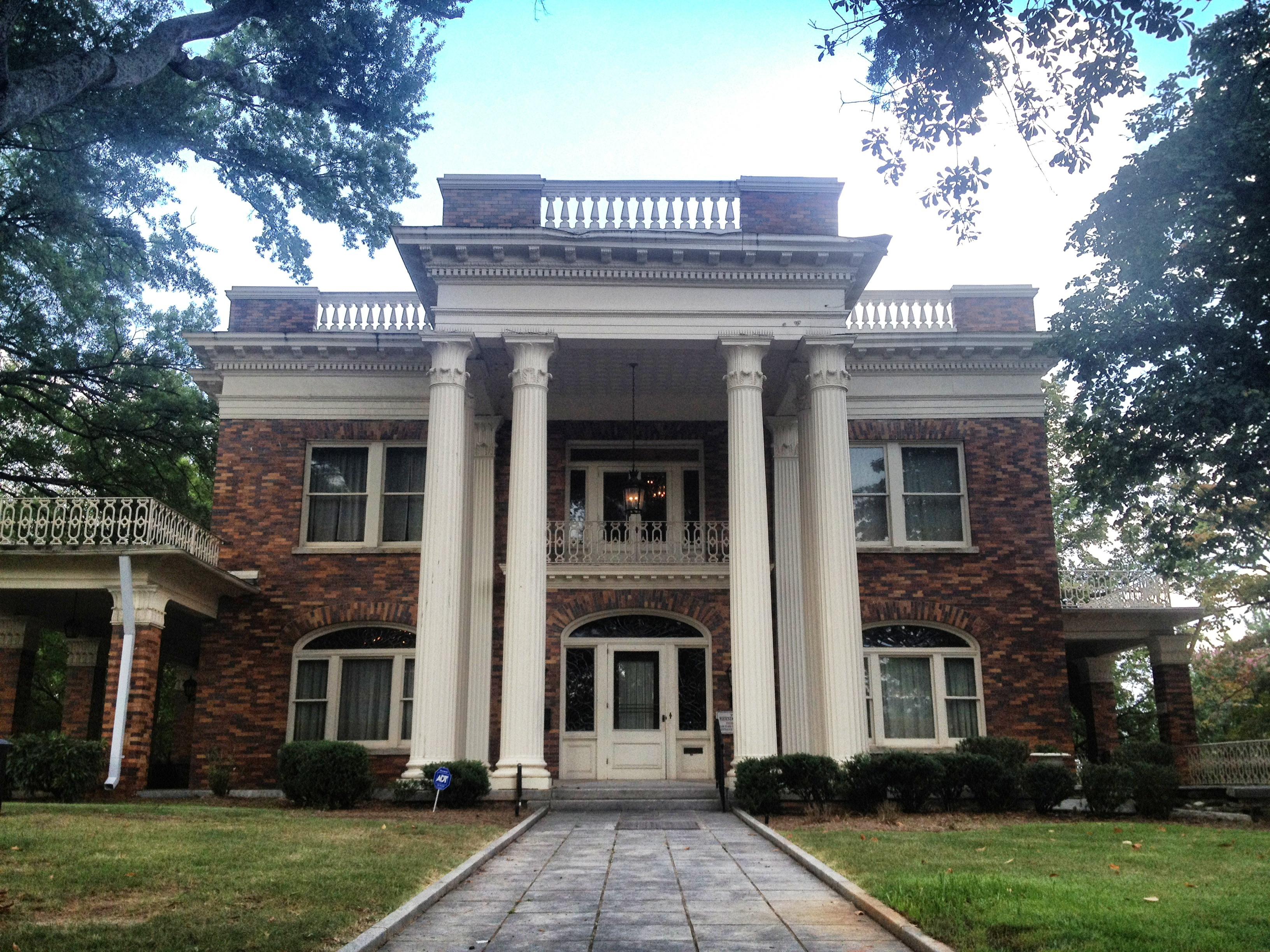 Alonzo Herndon mansion, Atlanta